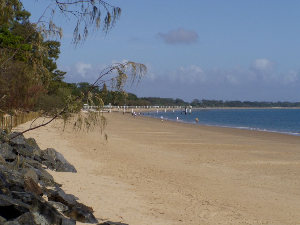 The beach in Hervey Bay looking towards Point Vernon , by Cyron found on Flickr